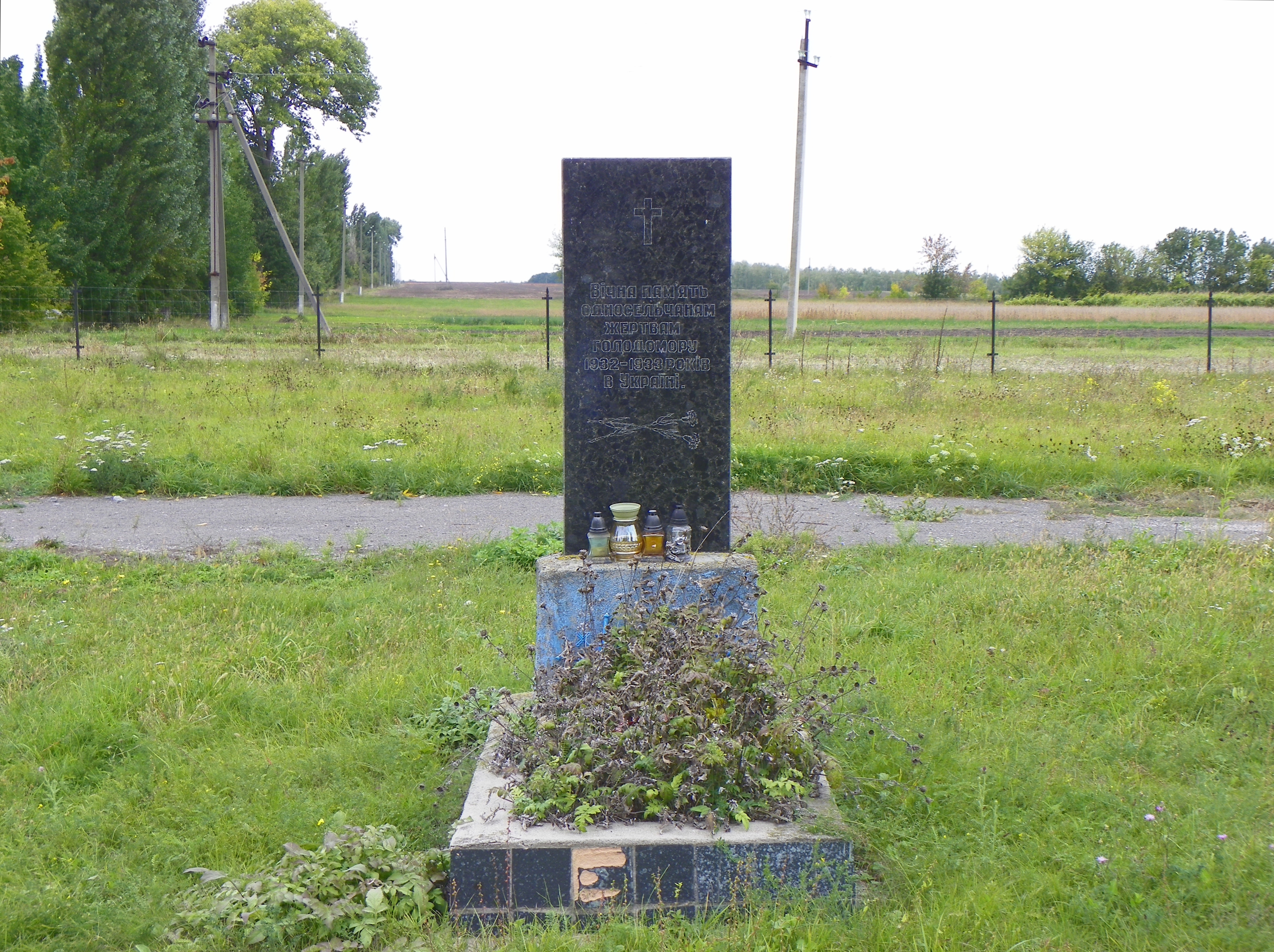 Monument to the victims of the Holodomor in the village of Dziunkiv, Vinnytsa region, Ukraine.